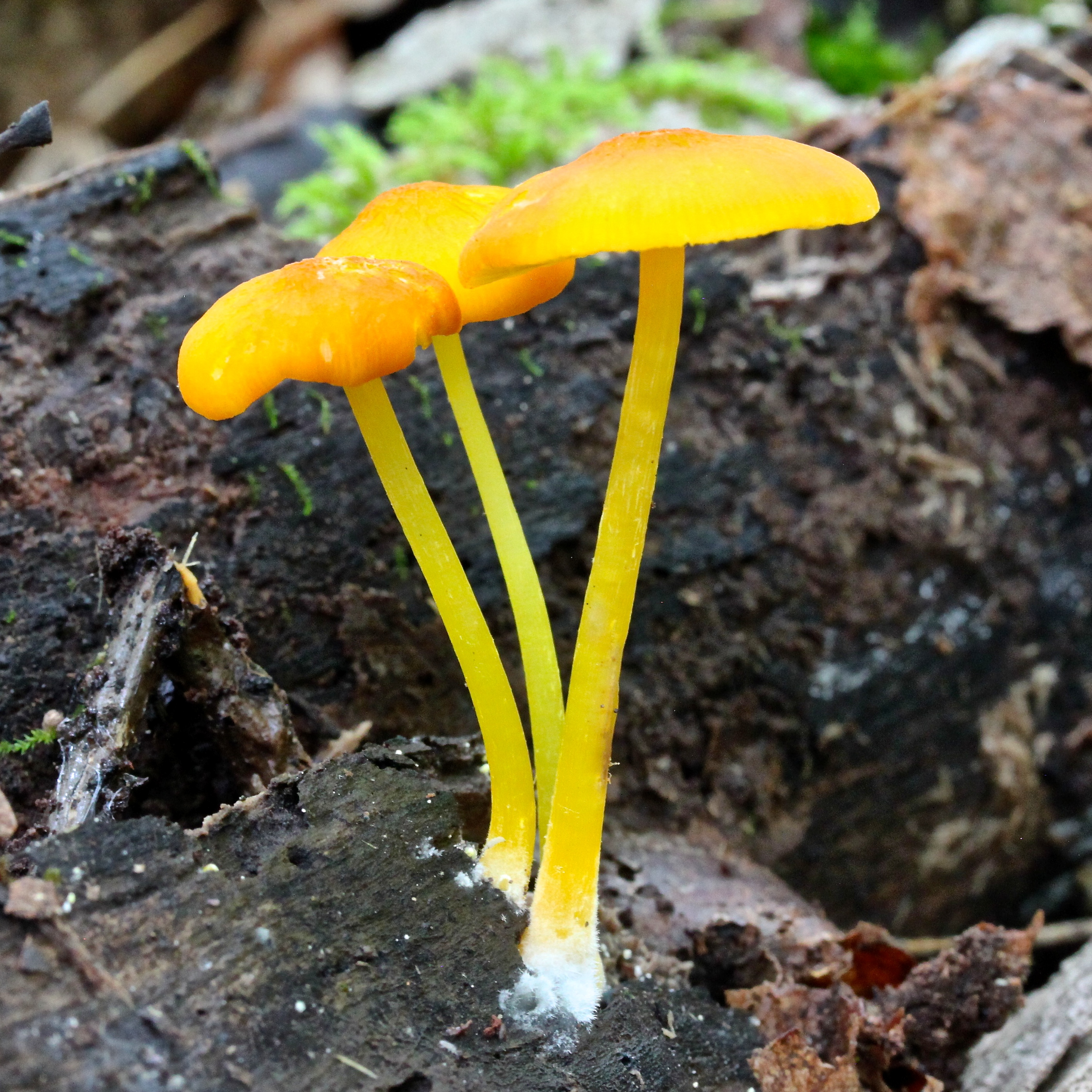 Pluteus chrysophlebius (Berk. & M.A. Curtis) Sacc. Image location: Sewickley, Allegheny Co., Pennsylvania, USA Hollow stem. Dark red spore print. Recognized by sight For more information about this, see the observation page at Mushroom Observer.